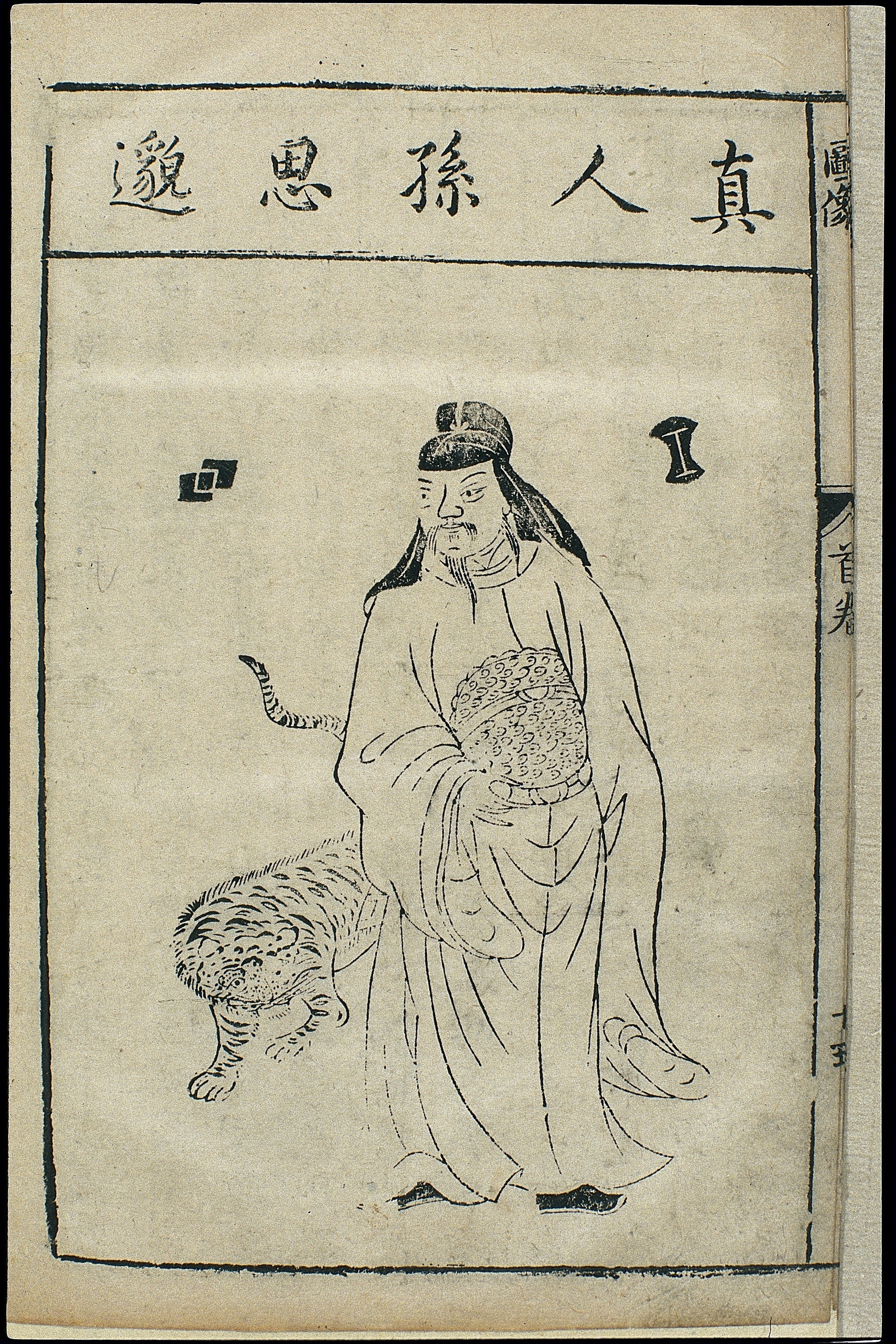 One of a series of woodcuts of illustrious physicians and legendary founders of Chinese medicine from an edition of Bencao mengquan (Introduction to the Pharmacopoeia), engraved in the Wanli reign period of the Ming dynasty (1573-1620) -- Volume preface, 'Lidai mingyi hua xingshi' (Portraits and names of famous doctors through history). The images are attributed to a Tang (618-907) creator, Gan Bozong. The account in 'Portraits and Names of Famous Doctors through History' states: Sun Simiao was a native of Huayuan, Jingzhao. He was a gifted child, with a retentive memory, and as an adult he was able to discourse on the various schools of philosophy derived from Laozi and Zhuangzi. At the end of the Northern and Southern Dynasties period (420-589), he retreated to Taibai Mountain, to study Daoism and practice breathing exercises and self-cultivation. Though Emperor Wen of the Sui (581-618) offered him the position of Guozi boshi (Erudite of the National University), and Emperor Gaozong subsequently invited him to the Tang court, he steadfastedly refused public office. He was skilled in astronomical divination and had made a profound study of medicine and drugs. His character was philanthropic and charitable, and he cared for all living things. So the story goes, he once witnessed a man in the act of killing a grass snake. He took off his outer garment, which he offered in exchange for the snake's life, then he dressed the creature's wounds and set it free.Woodcut By: Gan Bozong (Tang period, 618-907)